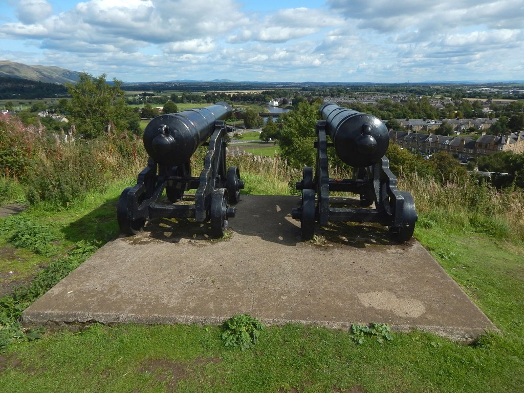 Cannons on Mote Hill